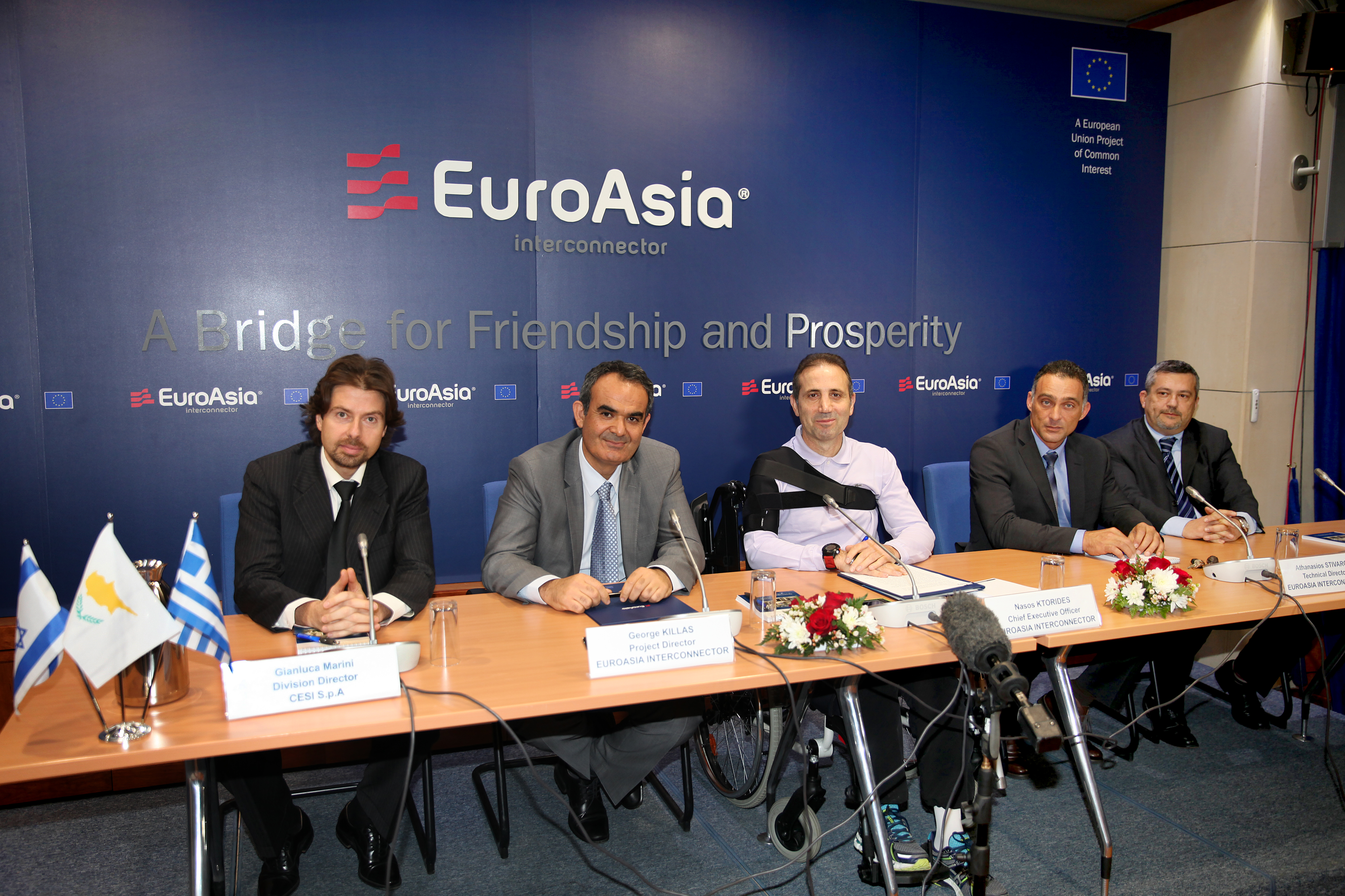 Signing ceremony held in Nicosia, where the three studies of EuroAsia Interconnector were awarded to the Italian companies CESI and GAS